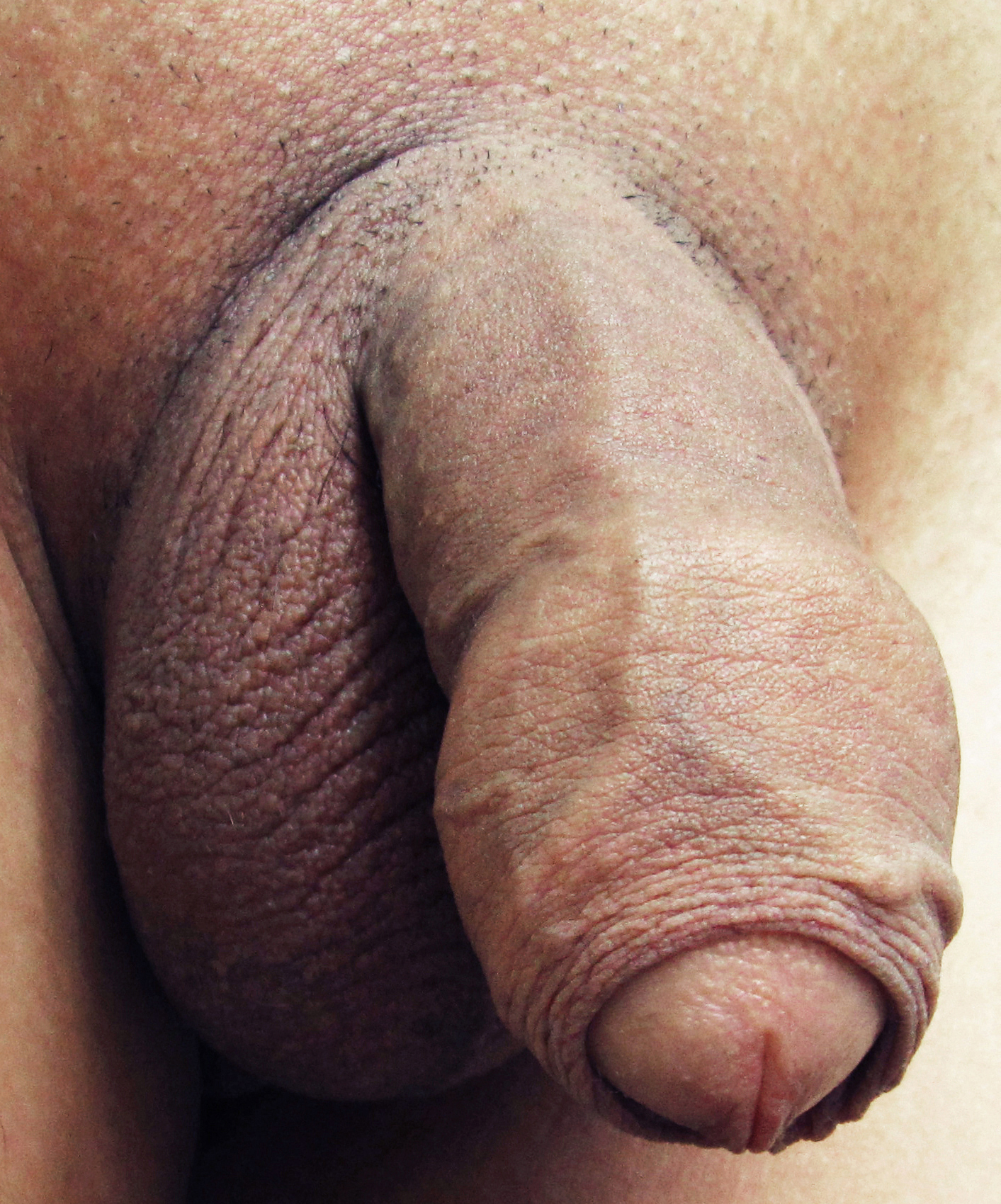 uncirmcised human penis, flaccid